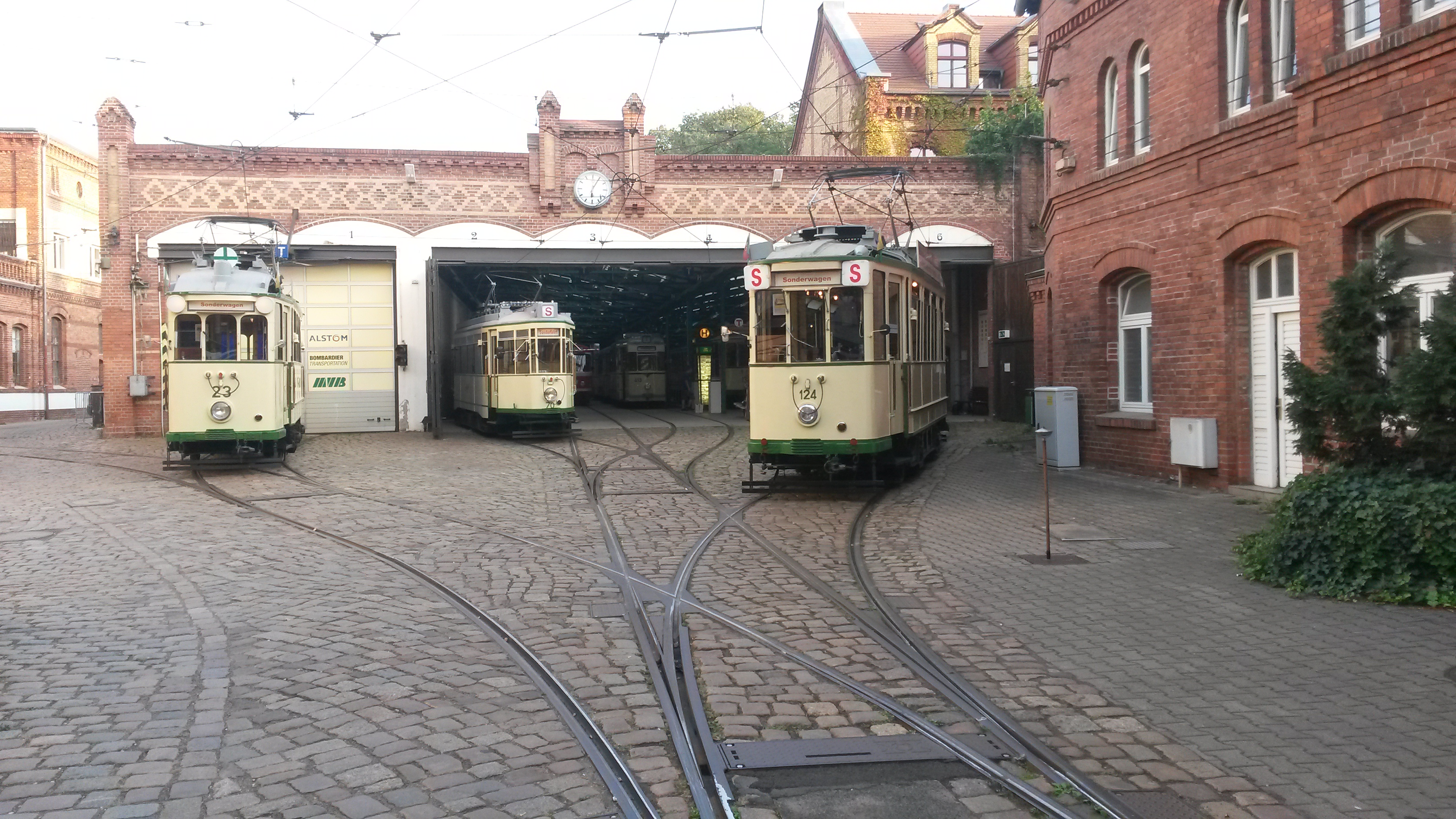 Museum Tramway Magdeburg